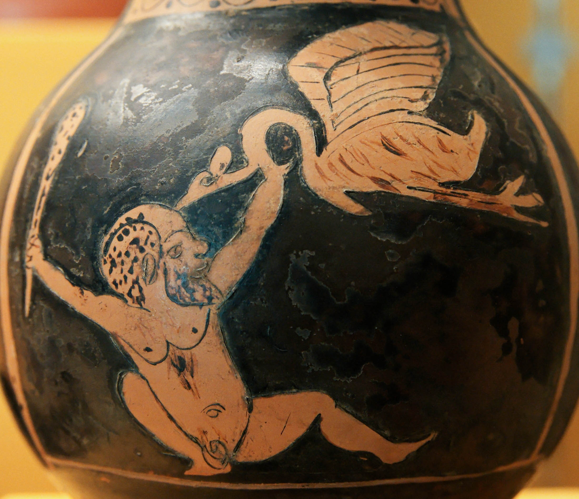 Pygmy fighting a crane. Attic red-figure chous (oinochoe, type 3), 430–420 BC.